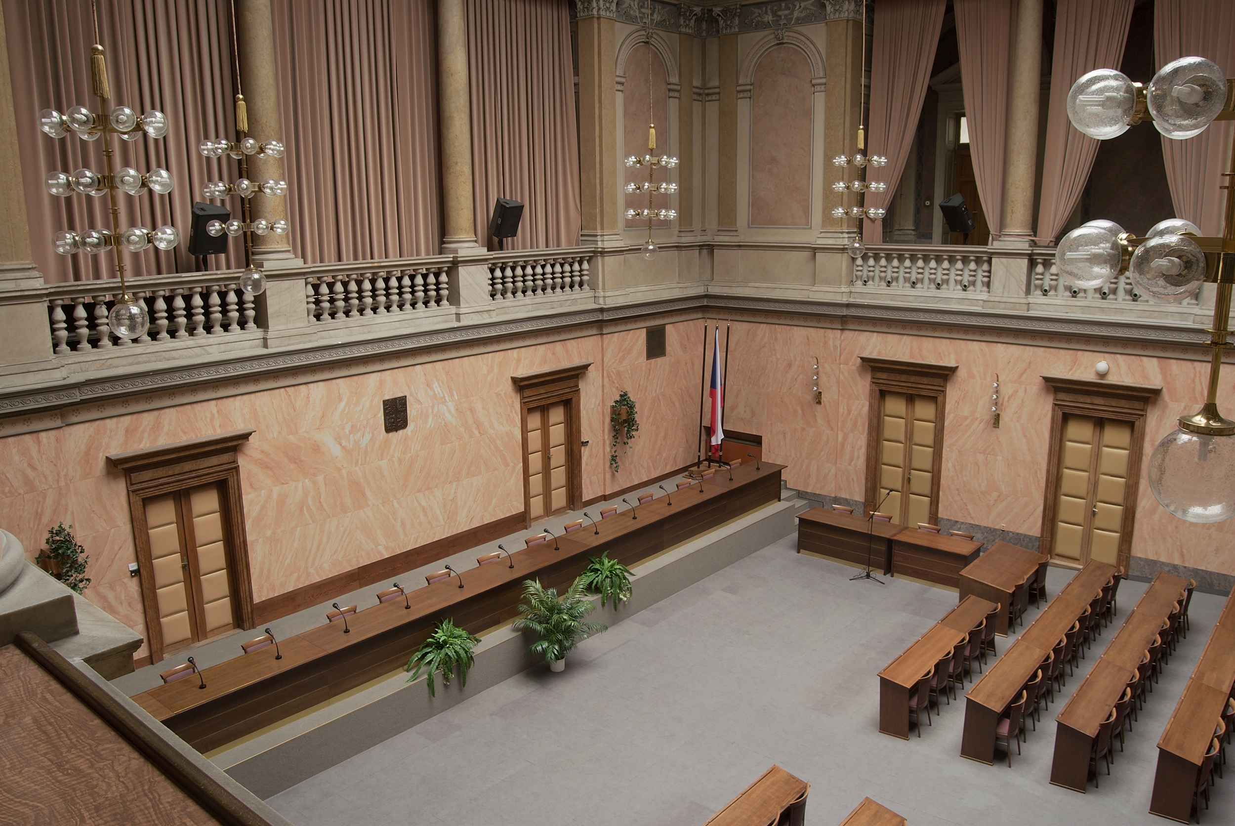 Moravian Provincial Diet - Assembly hall